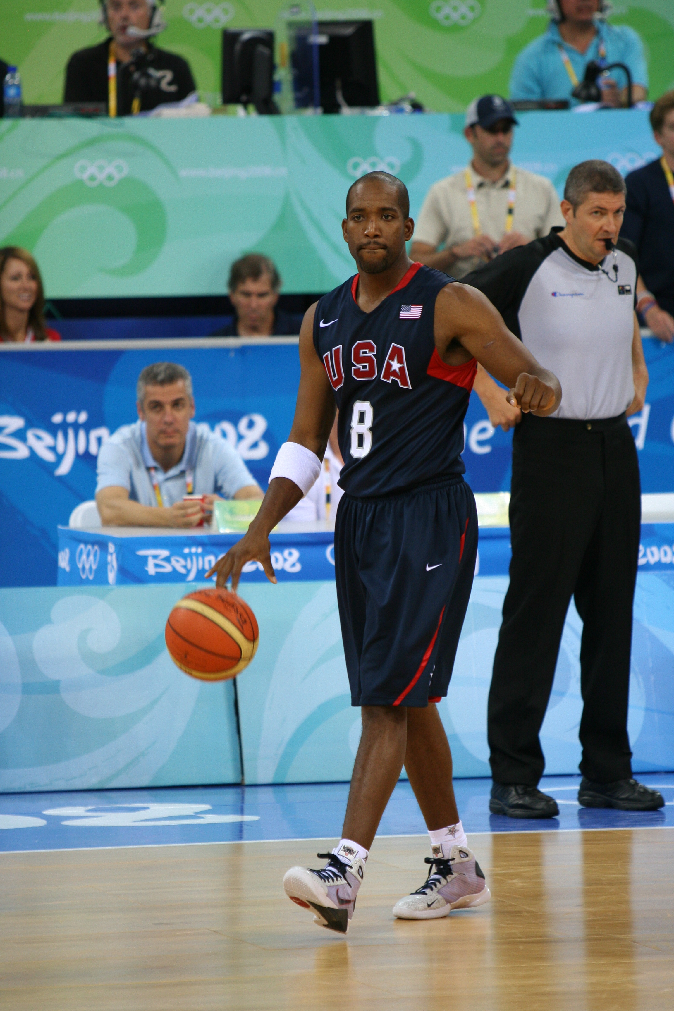 Michael Redd, the 43rd pick.In the back Luigi Lamonica, italian referee